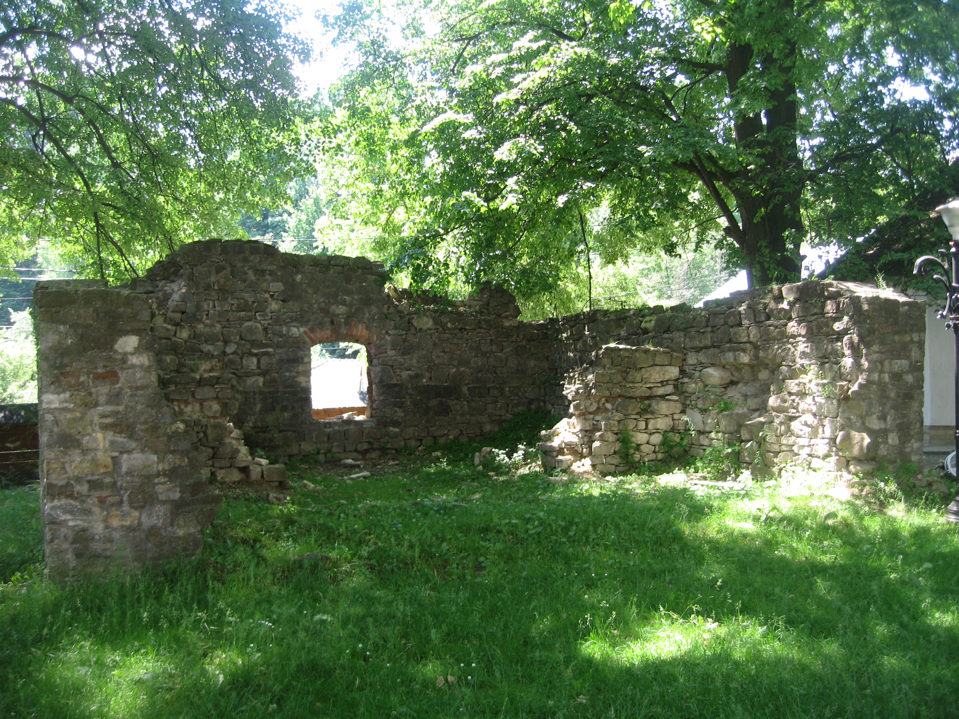 Humor Monastery